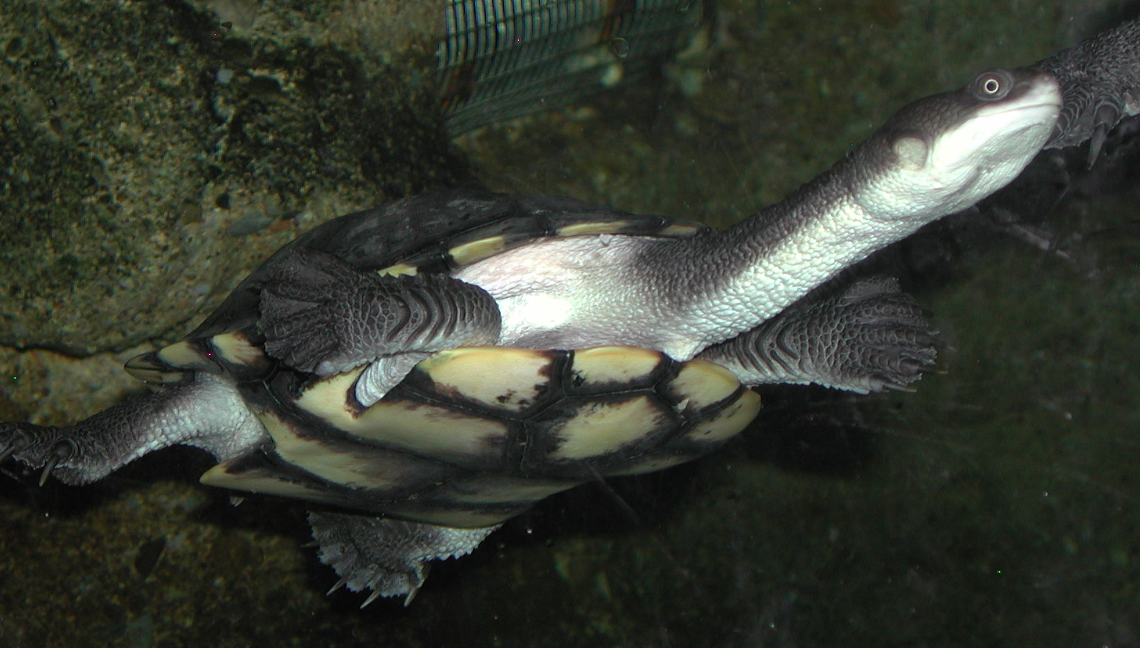 Australische Schlangenhalsschildkröte (Chelodina longicollis) Photo taken in the Tierpark Dählhölzli in Berne Source: photo uploaded by User:RicciSpeziari. Photographer: Riccardo Speziari